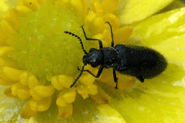 Picture taken in Commanster, Belgian High Ardennes . Species: Tillus elongatus It's a Dasytidae (Psilothrix?) This is no Tillus elongatus, even the wrong family!! --Siga (talk) 07:35, 26 June 2008 (UTC) It seems to be a Melyridae--Xvazquez (talk) 14:19, 30 June 2008 (UTC)